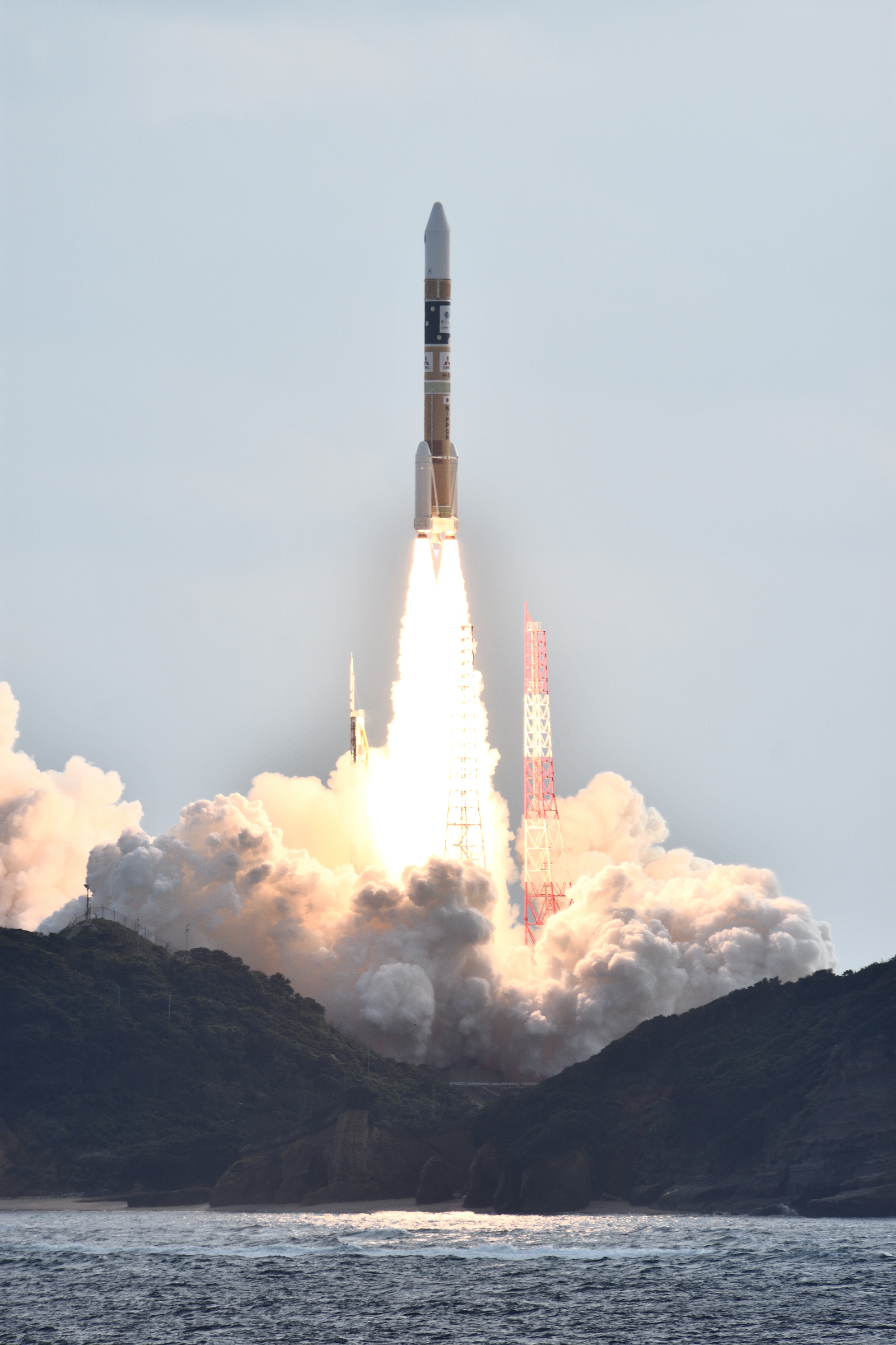 H-IIA Launch Vehicle Flight 31, launching the geostationary meteorological satellite "Himawari-9".